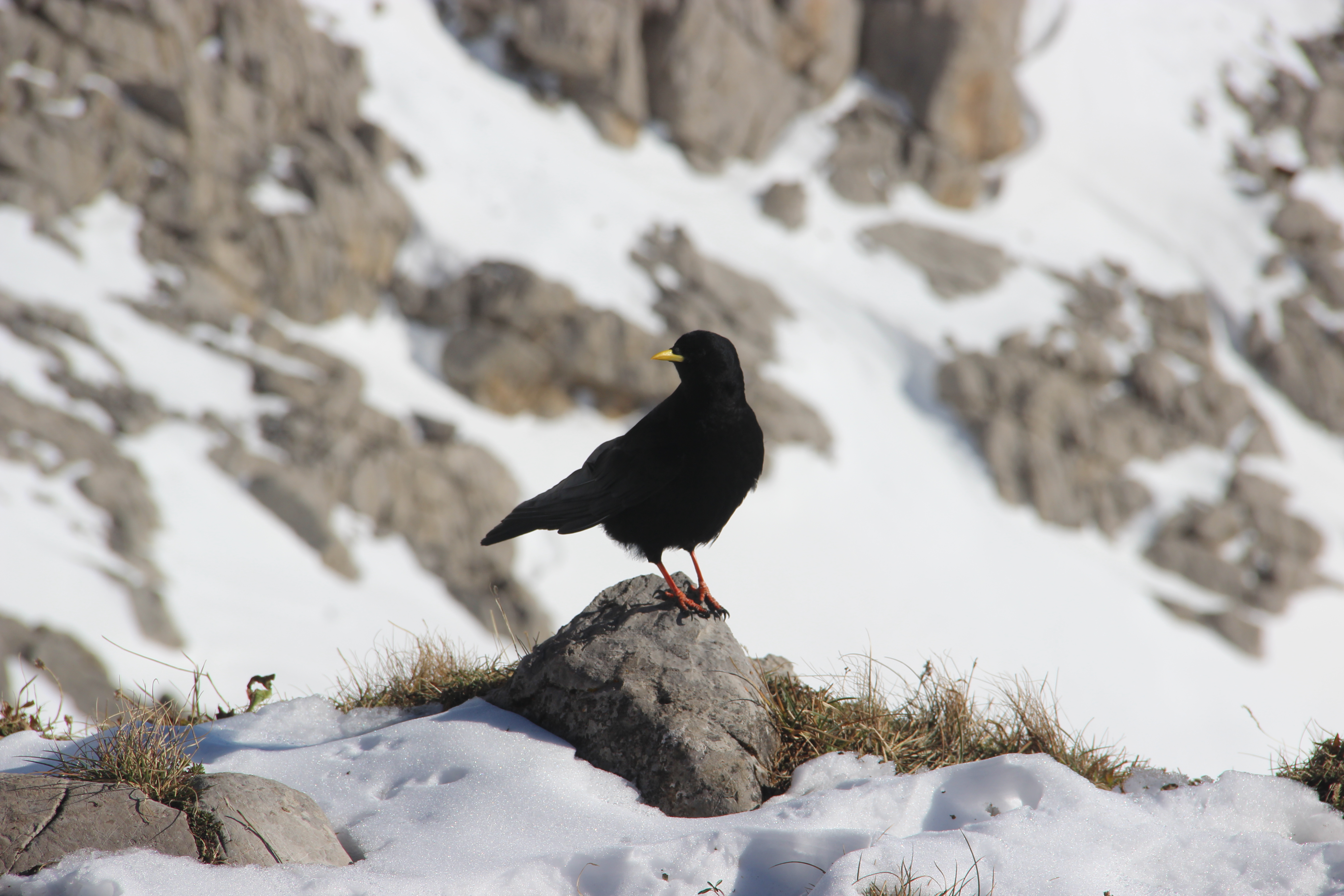 Alpine Chough - Pyrrhocorax graculus